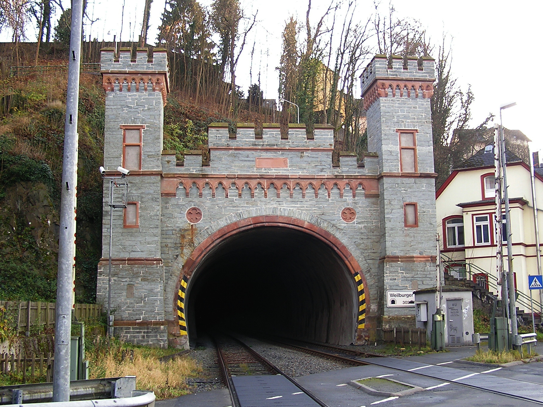 Northern portal of the Weilburg railway tunnel at the Lahntalbahn